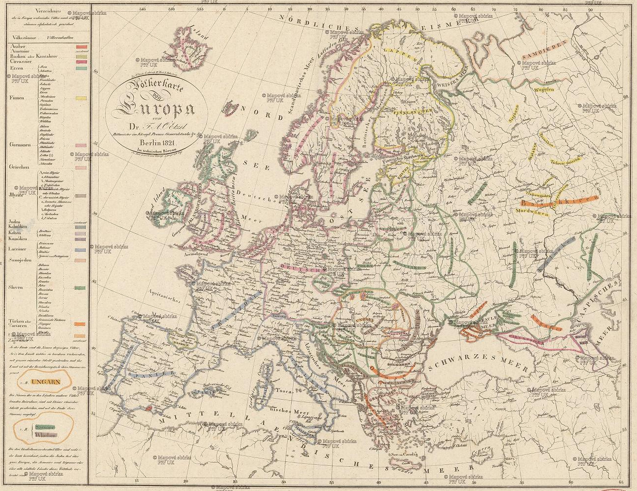 Völkerkarte von Europa is a map depicting nationalities living in Europe in the first half of 19th century